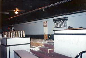 Balcony of the Beacham Theatre undergoing remodeling in March 1991. The feathered capital of a small column and the projection port for the theater's original 35 mm film projector booth is visible.